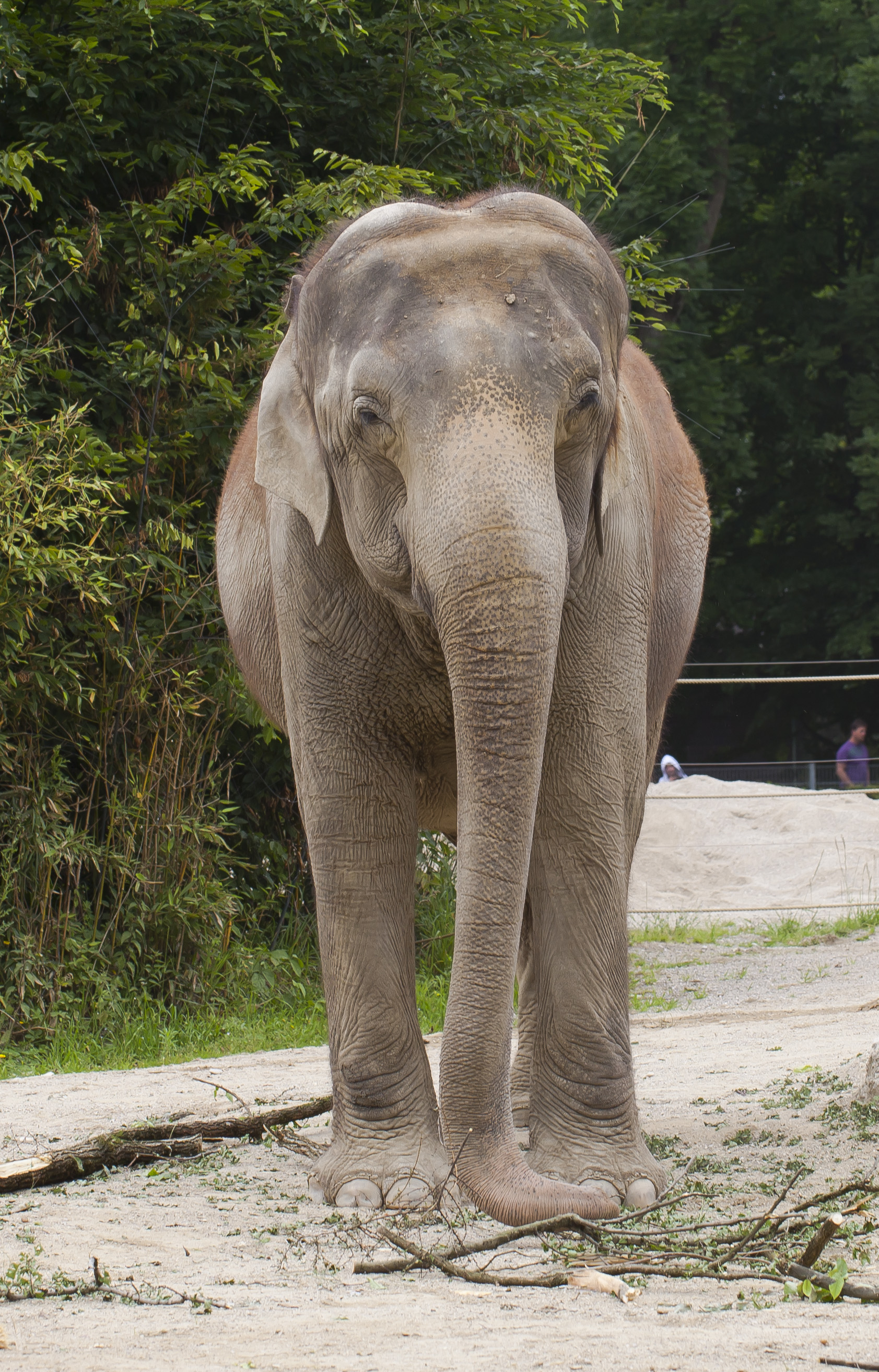 Asian elephant (Elephas maximus), Tierpark Hellabrunn, Munich, Germany